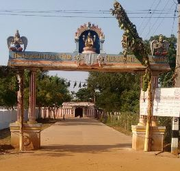 Vallam yoga narasimha perumal temple வல்லம் யோக நரசிம்மப்பெருமாள் கோயில்